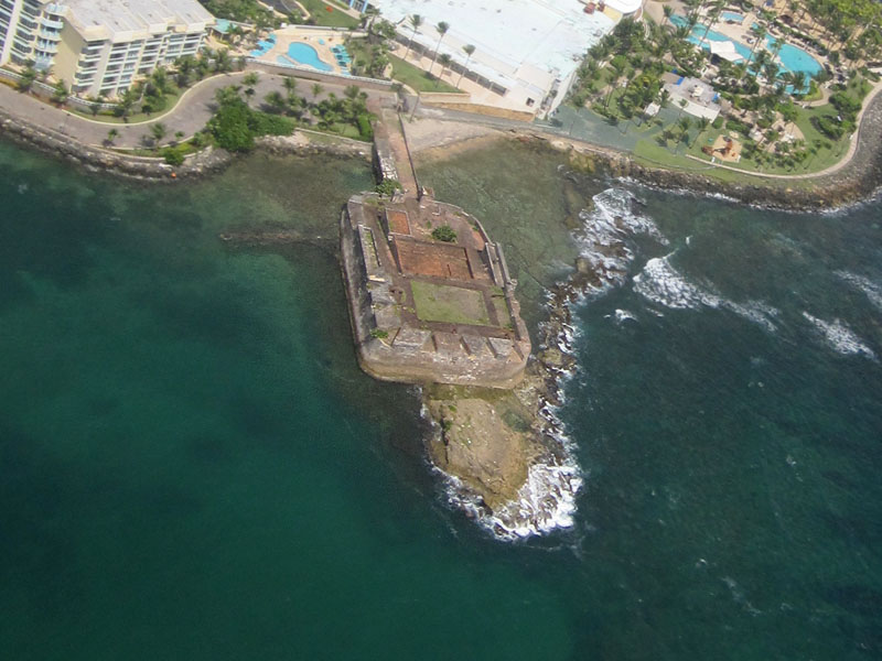 Fort San Gerónimo in San Juan, Puerto Rico